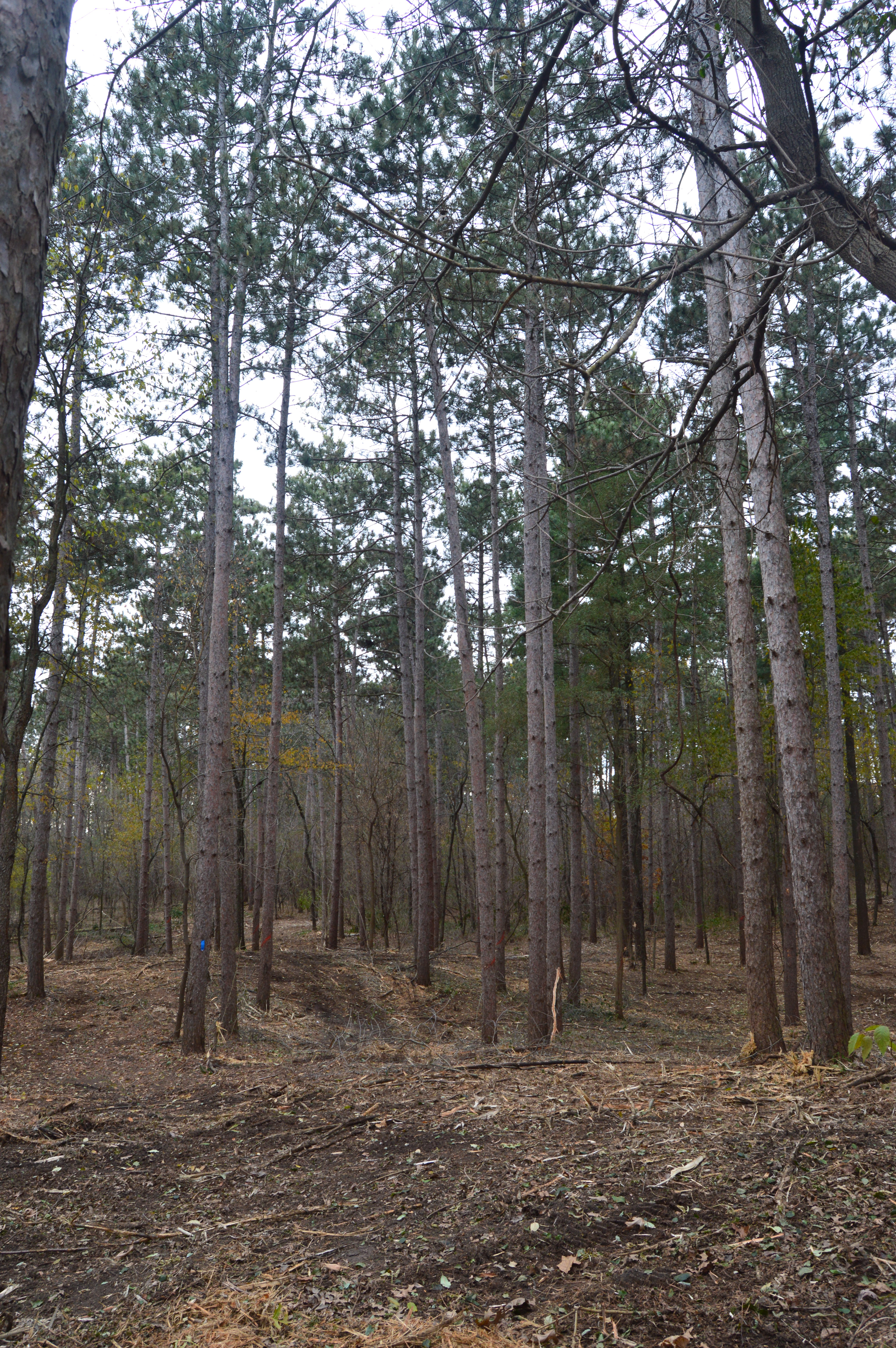 A view of the Wisconsin Kettle Moraine State Forest Southern Unit in the fall.